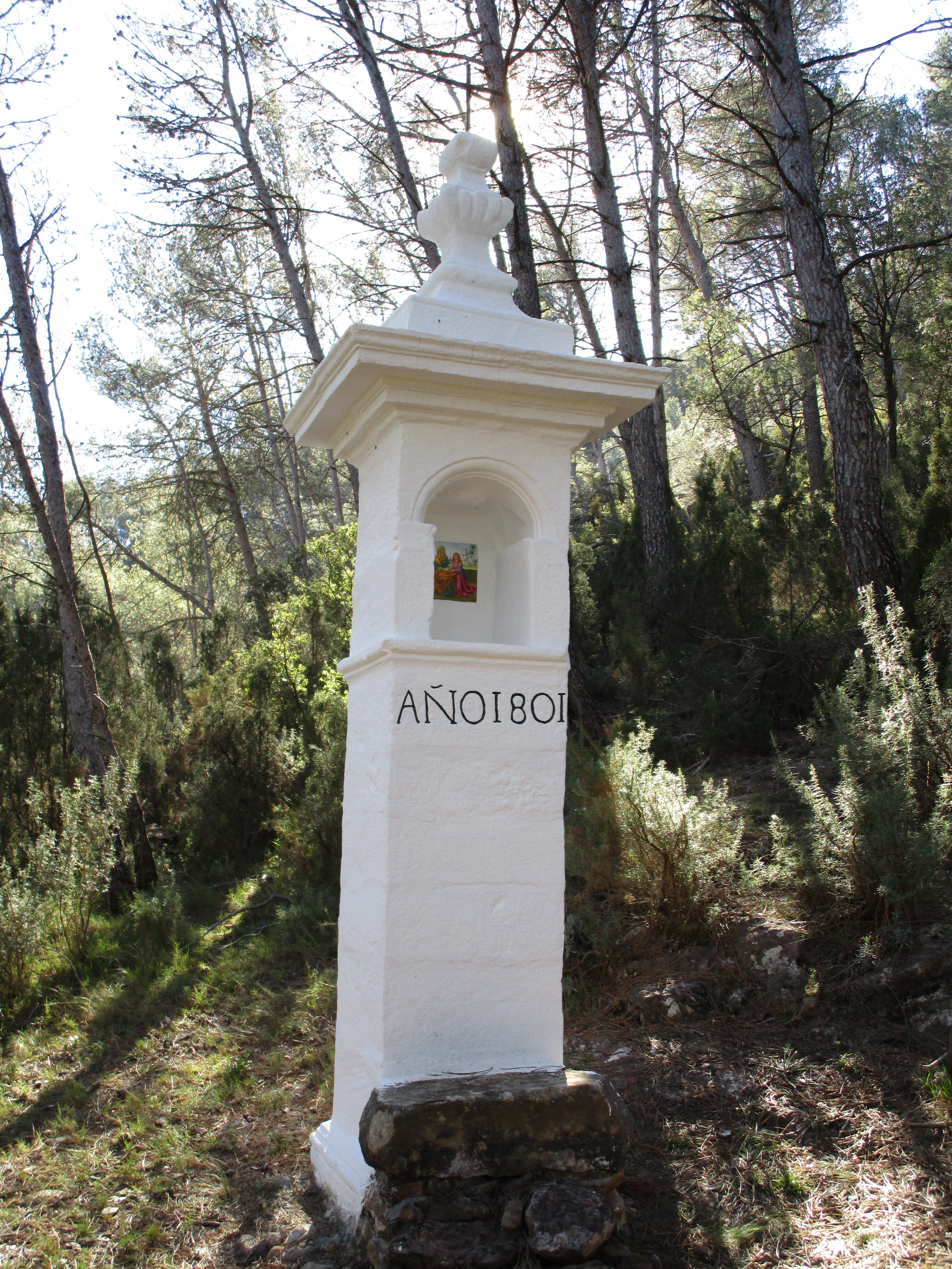 Pilon of Santa Ana (Zucaina, Alto Mijares, Castellón, Spain)